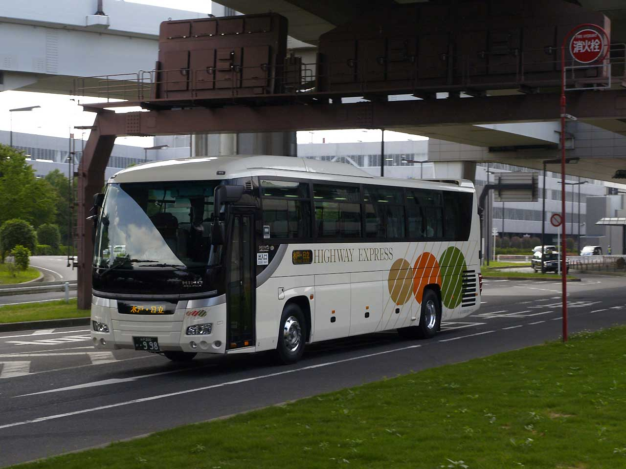 Fleet of Hitachi Dentetsu Kotsu Service, operated in Narita Airport Limousine "Rose Liner". Model: Hino Selega PKG-RU1ESAA License plate: IBM200 KA-998 Place: Narita International Airport